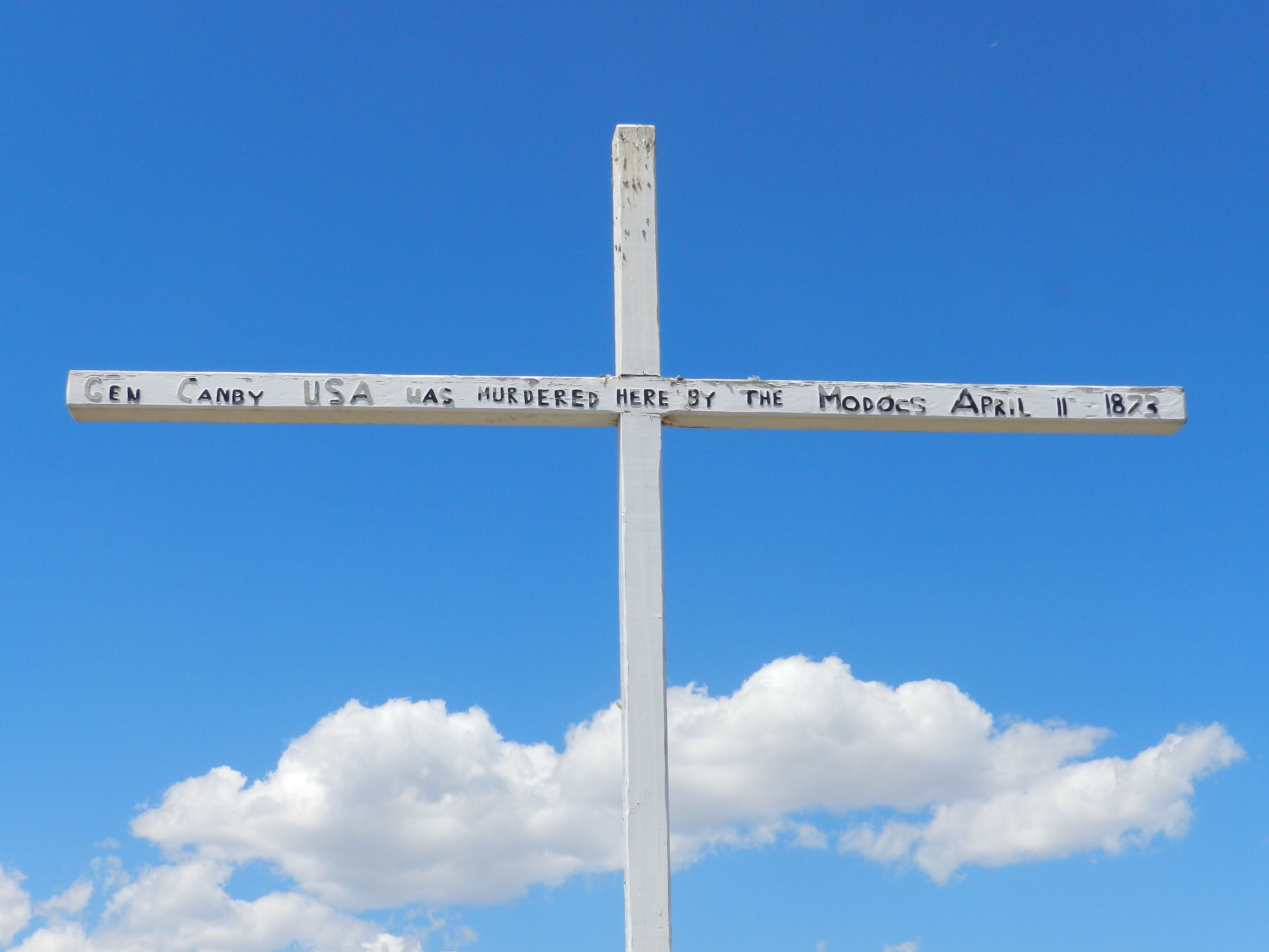 closeup of reproduction of earlier version of Canby's Cross, Lava Beds National Monument, california